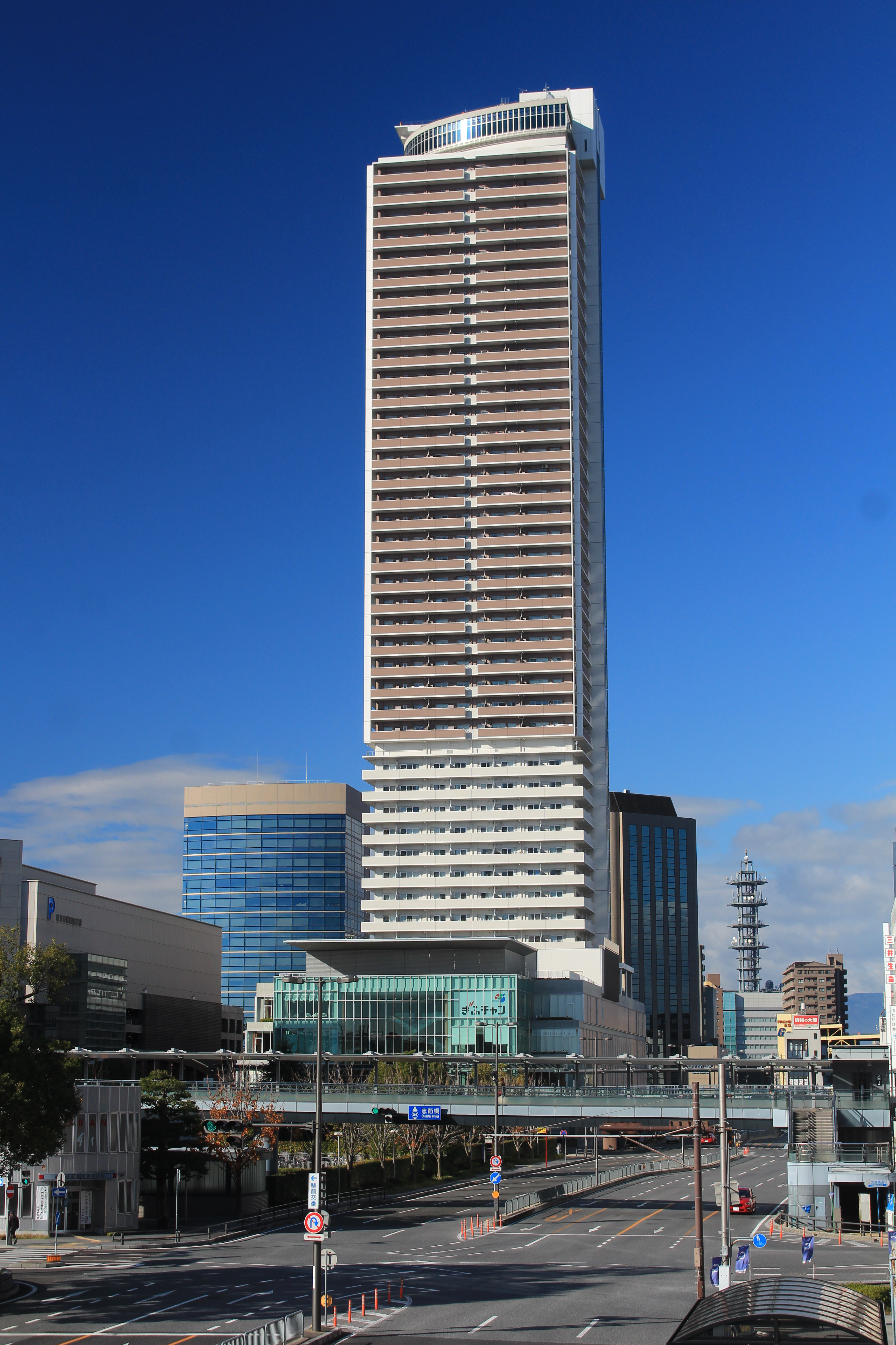 Gifu Prefectural Road Route 54 and Gifu City Tower 43 seen from east in Gifu city, Gifu prefecture, Japan.